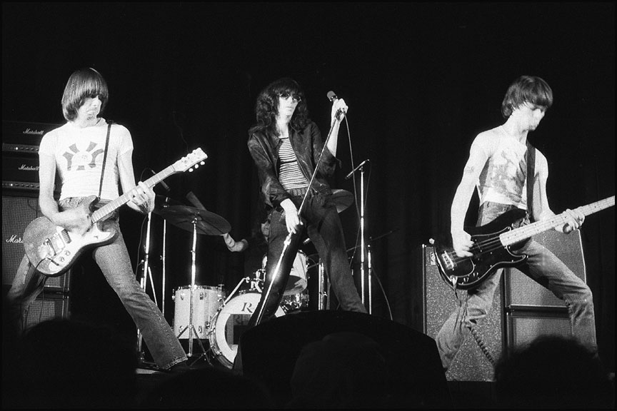 Concert by the touring Ramones, at the New Yorker Theater